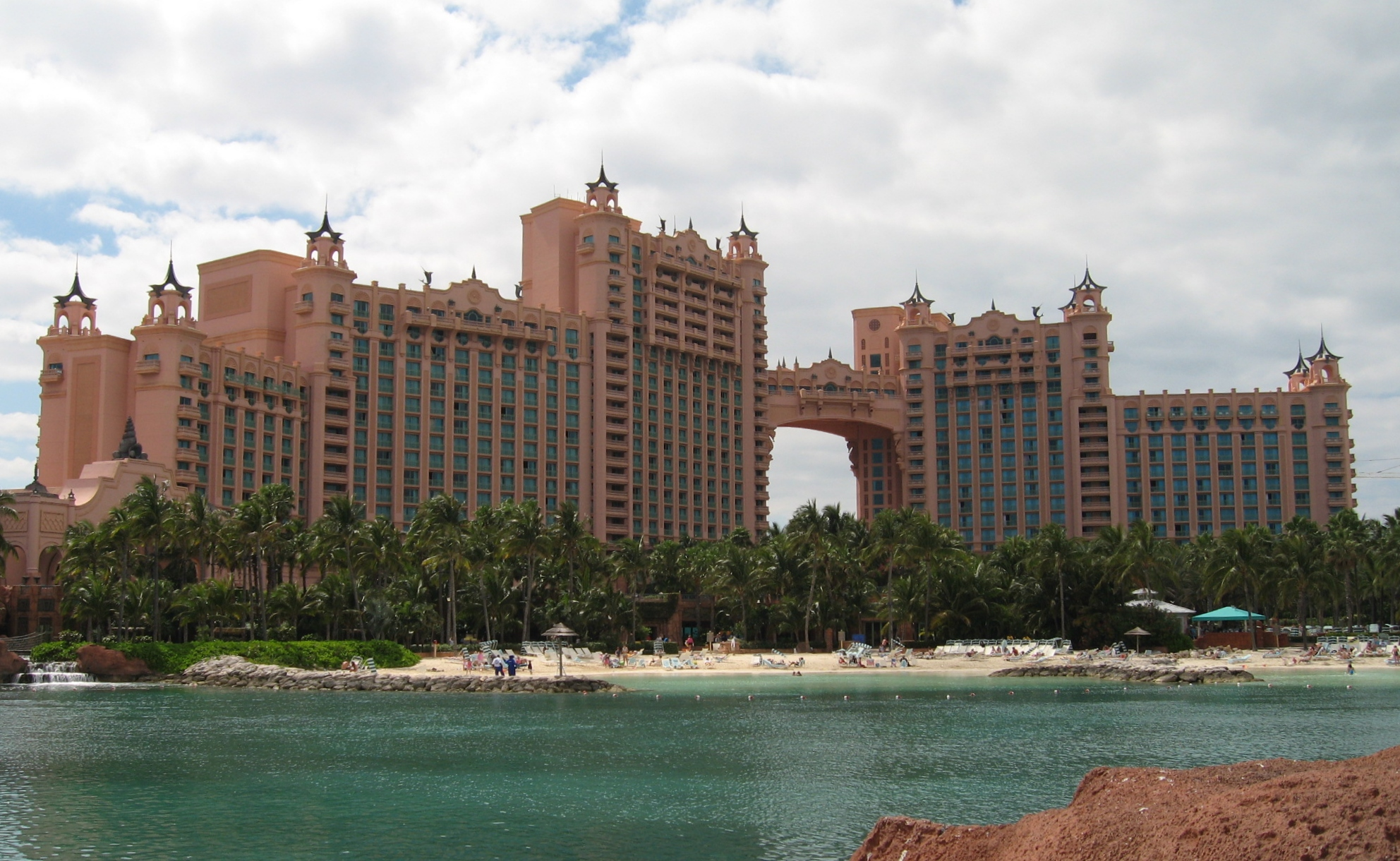 Rotated and cropped version of Image:Atlantis Paradise Island Hotel.JPG. Photographer is N4nojohn, edits by KFP.